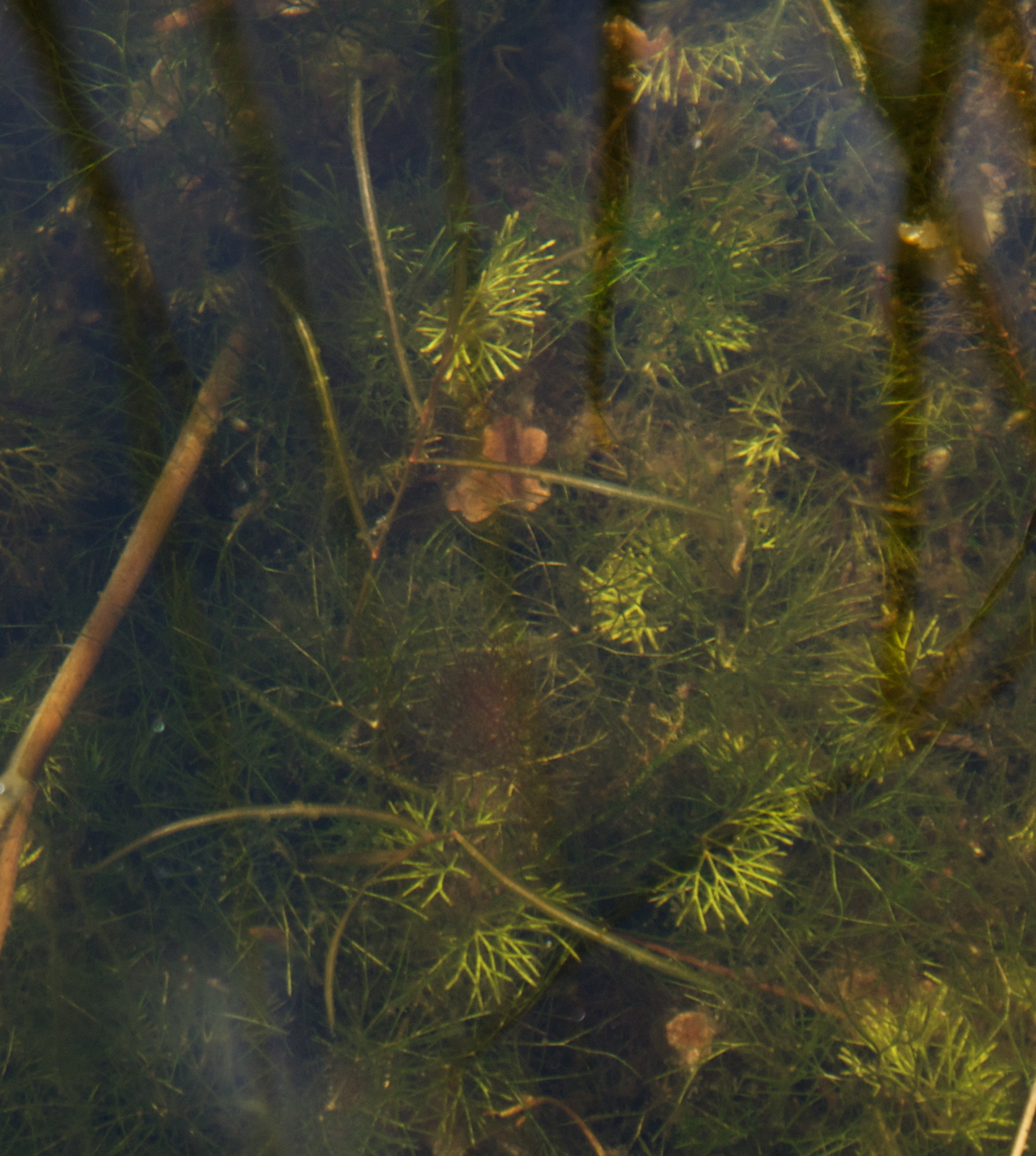 Shoots of Potamogeton berchtoldii growing with milfoil and water crowfoot in a garden pond